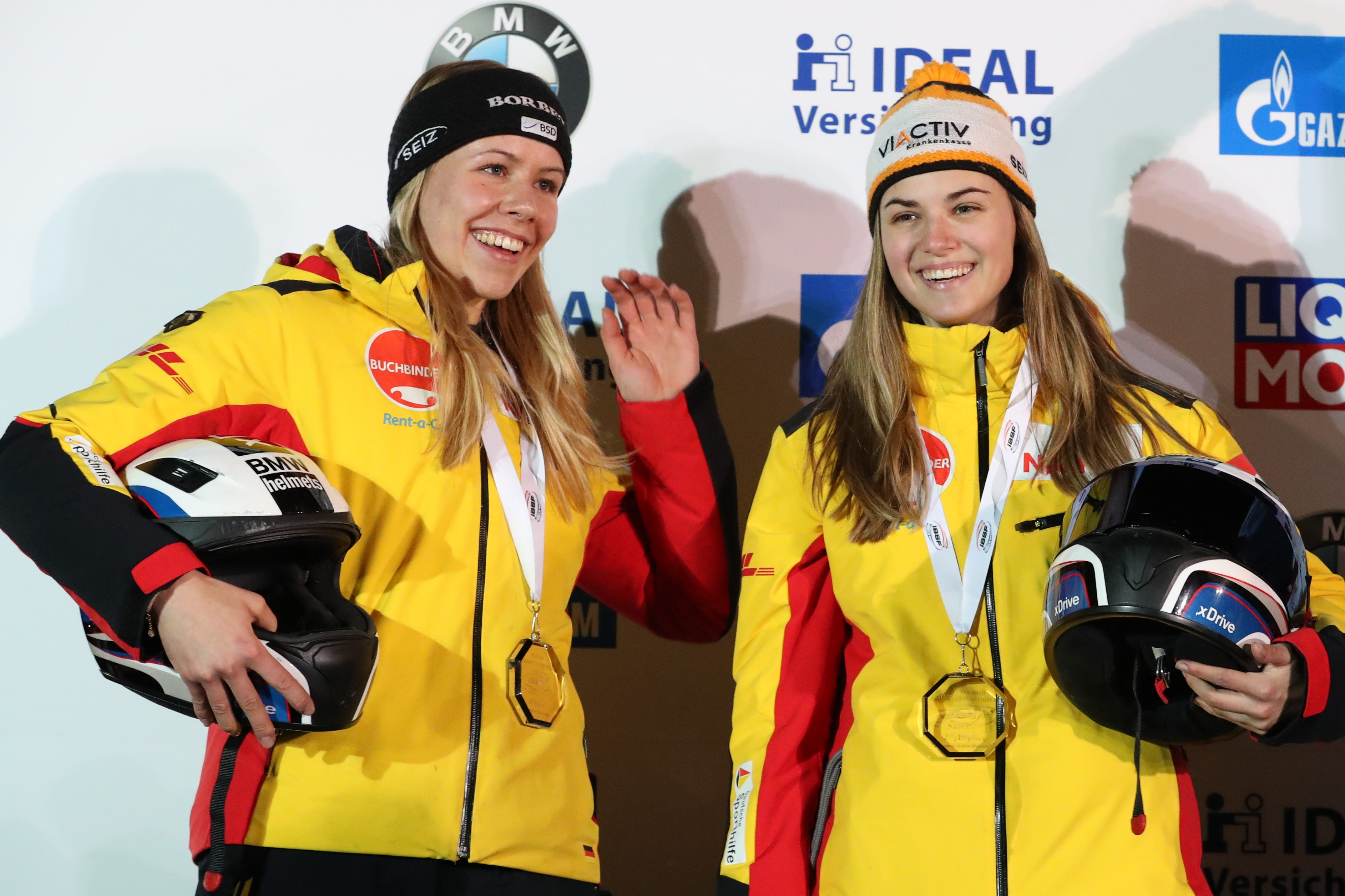 Medal Ceremony at the 2-woman bobsleigh at the Bobsleigh and Skeleton World Championships 2020 in Altenberg